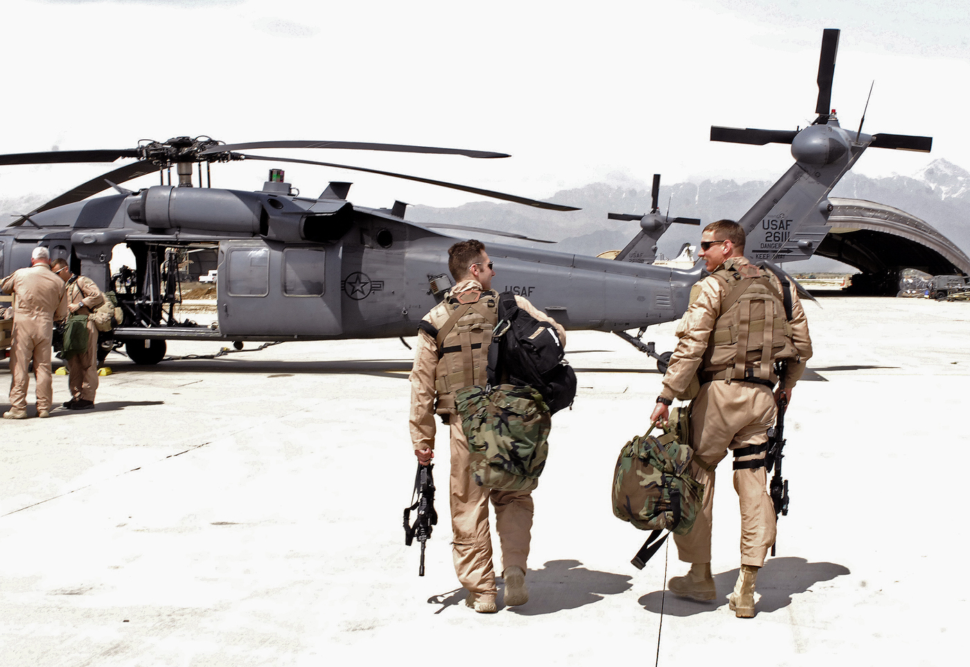 First Lt. Shaun Cullen, 101st Expeditionary Rescue Squadron pilot, and Capt. Robert Felix, 492nd Expeditionary Fighter Squadron flight surgeon, walk out to an HH-60 Pave Hawk prior to a training mission April 20. The 101st ERQS, deployed here from West Hampton Beach, N.Y., provides combat search and rescue capability for the 455th Air Expeditionary Wing. Nearly half of the New York Air National Guard aircrews deployed here are firefighters or police officers back home including Lieutenant Cullen.